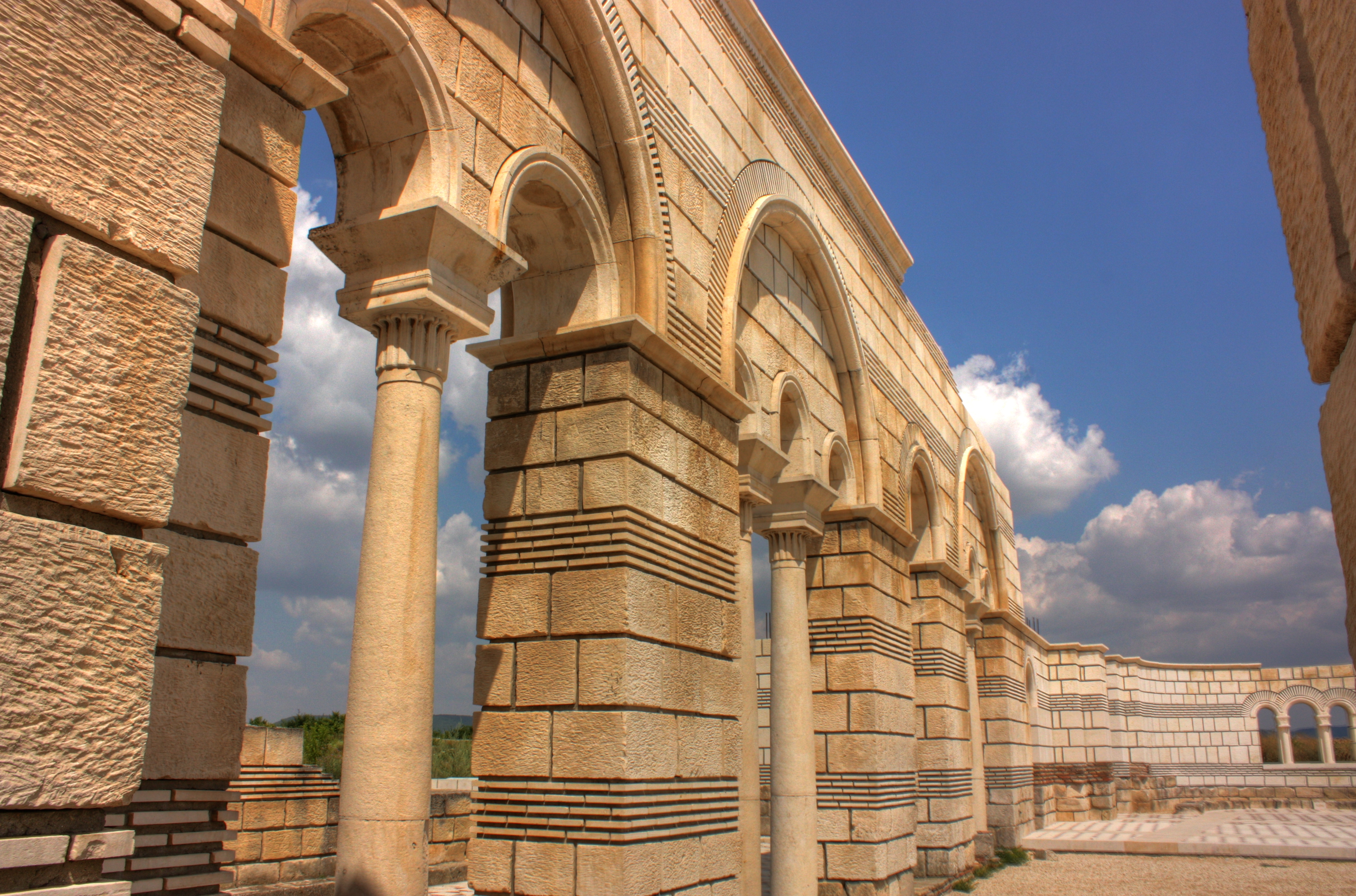 The Great Basilica at the Outer Town of Pliska, the first Bulgarian capital (partial reconstruction). The Great Basilica of Pliska...